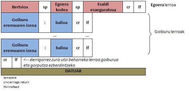 the format of an HTTP response message